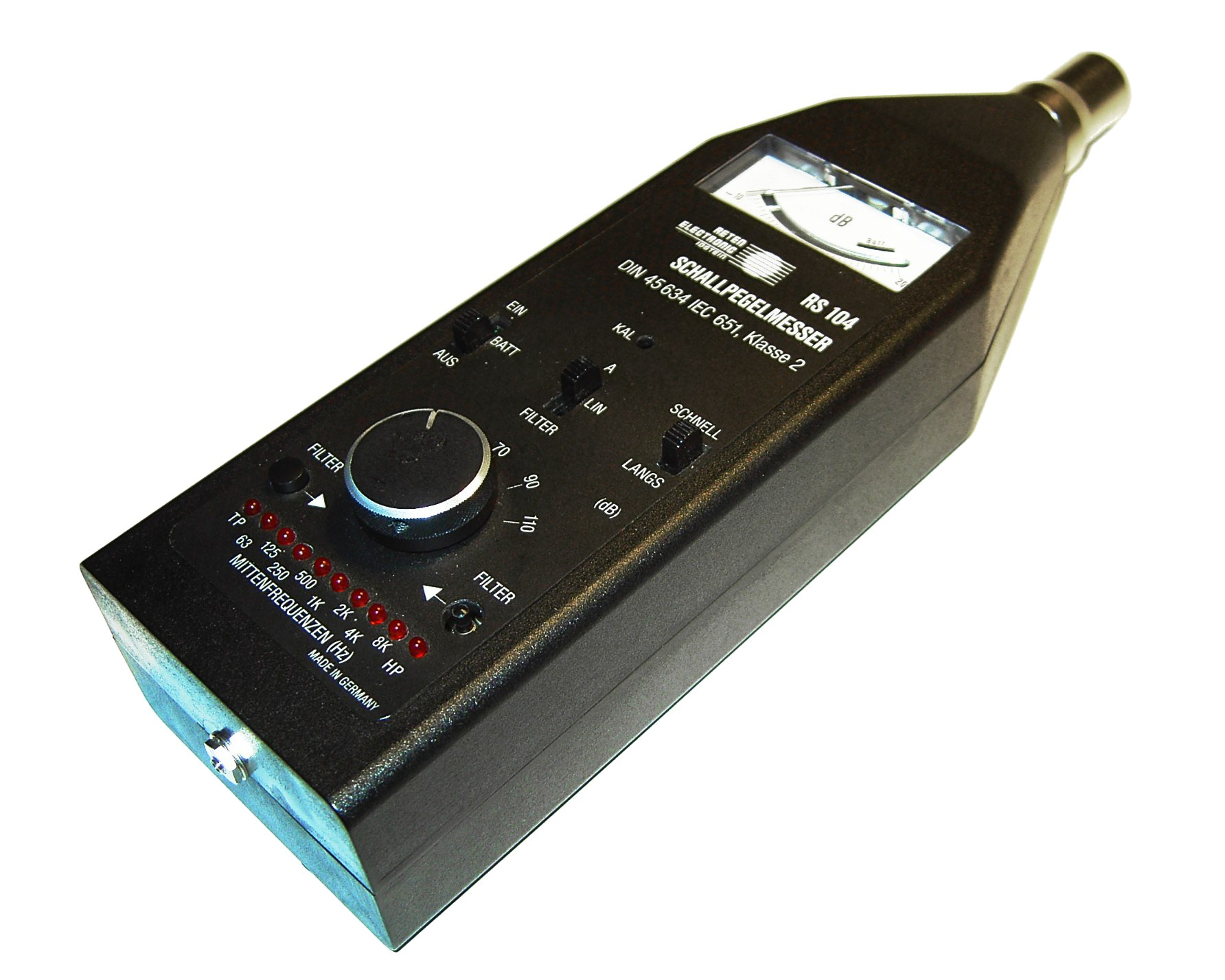 This photo shows a REITER ELECTRONIC Schallpegelmesser RS 104 DIN 45634, IEC 651, Klasse 2